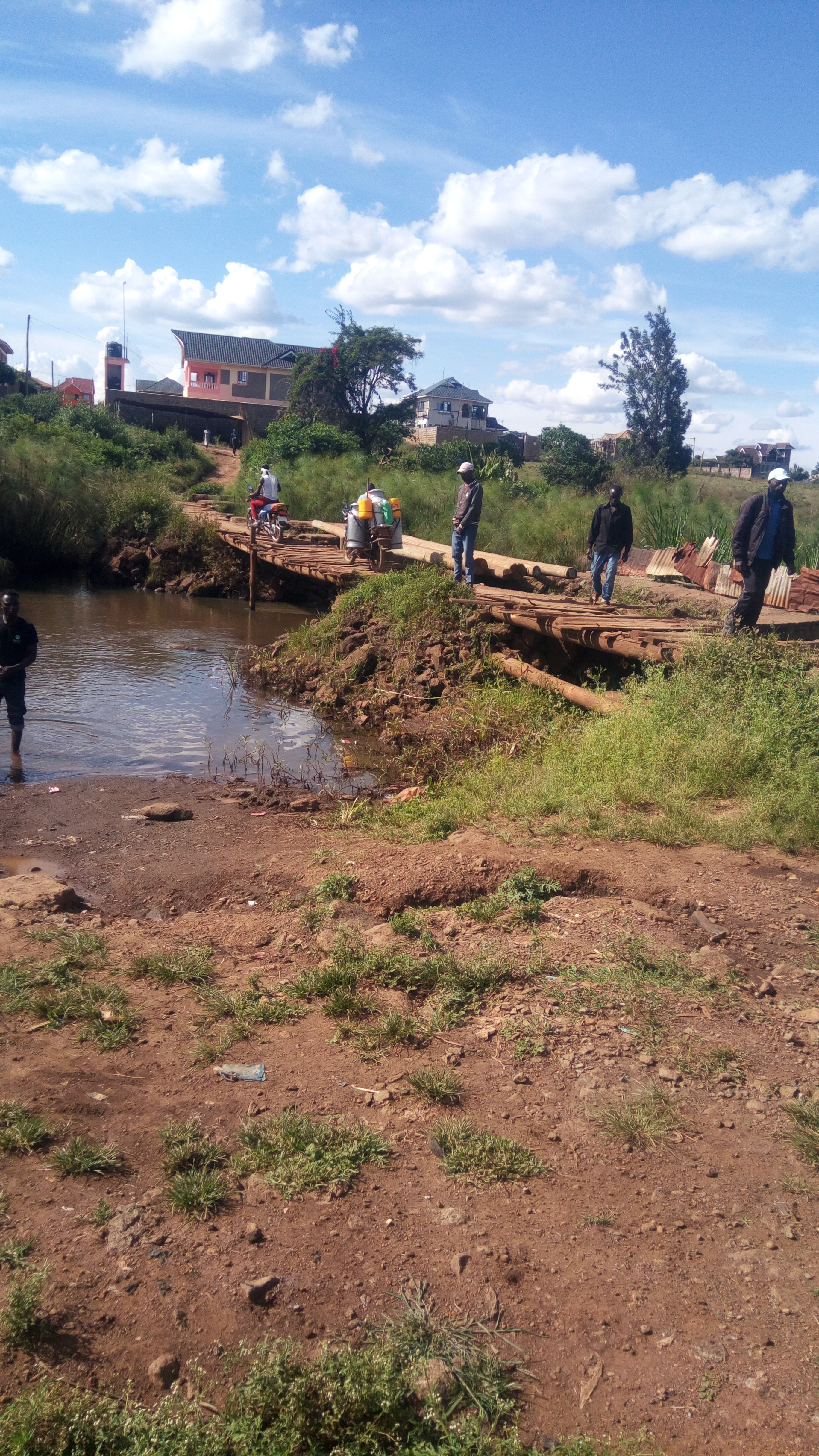 This picture represents human creativity. It shows the sheer will for people to move to different places. In the picture, we can see a cargo boda-boda operator ferrying goods. on the other side we have people moving and trying to cross on foot. Its all made possible by the wooded bridge put in place. This is an image with the theme "Africa on the Move or Transport" from: Kenya